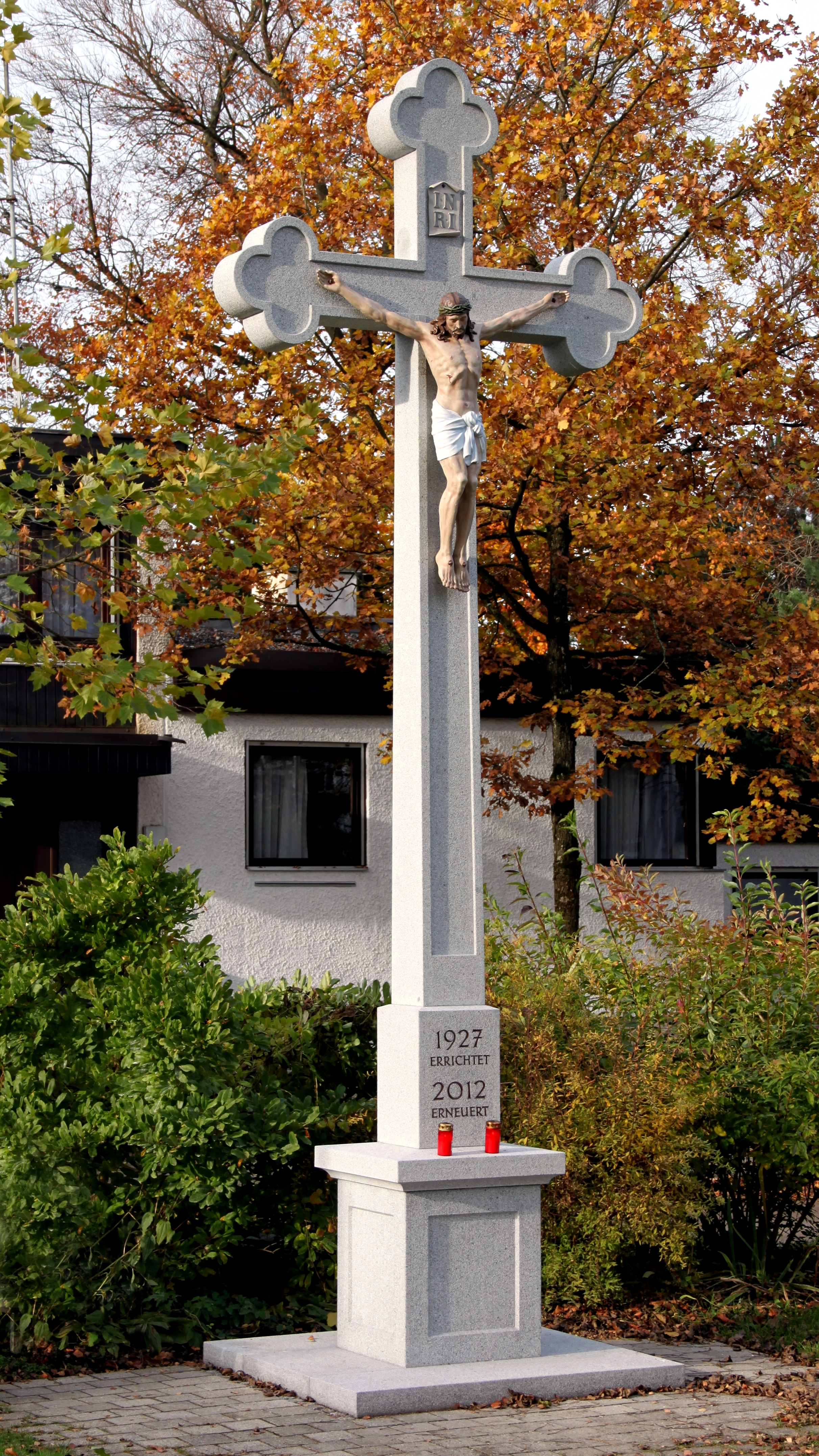 Ottobrunn (opposite 1a Burgmaierstraße): field cross (erected in 1927, fully refurbished in 2012).